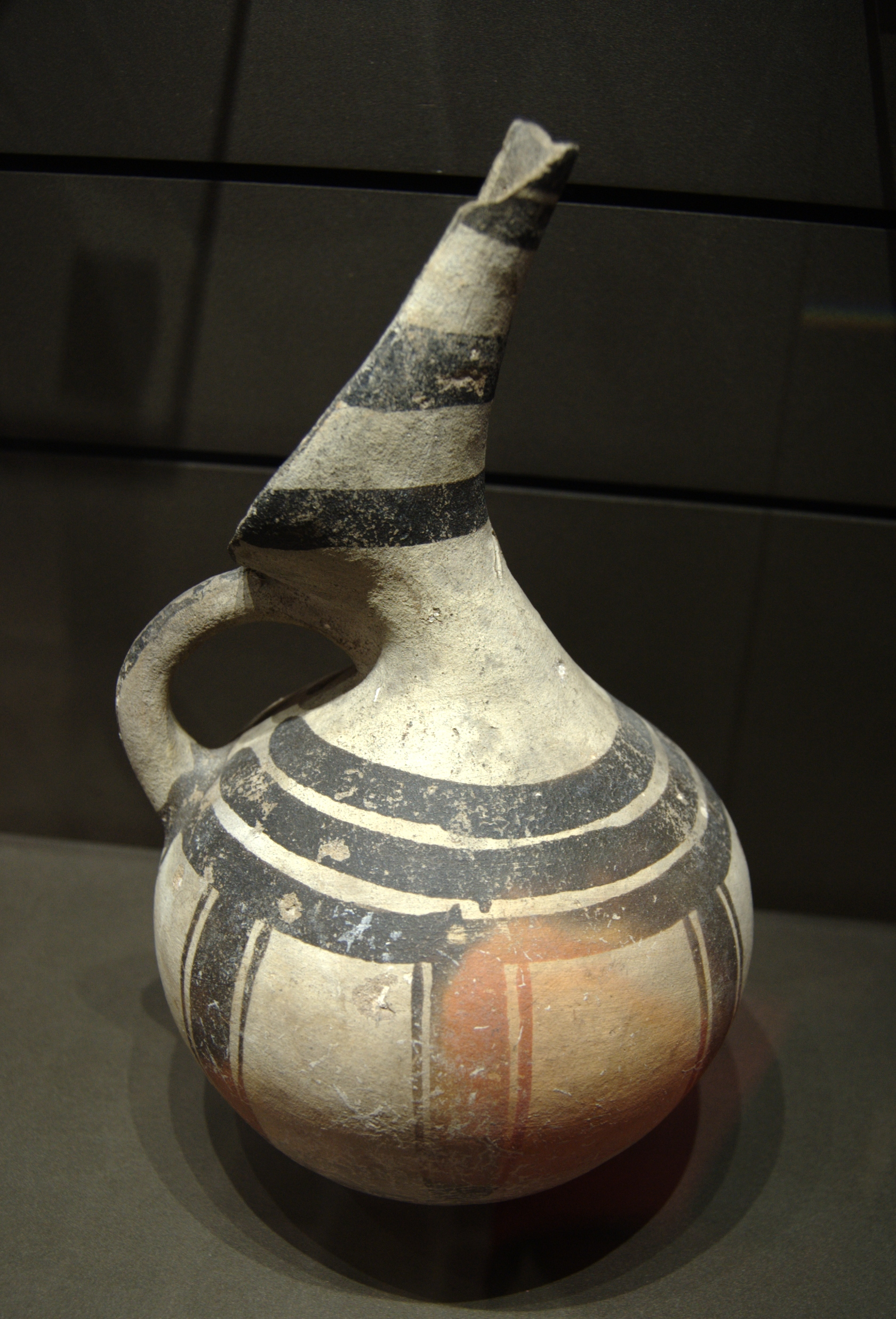 Reversed-neck jug from the Greek island Milos (formerly known as Melos). Terracotta, Middle Cycladic I (Phylakopi II, ca. 1800 BC).